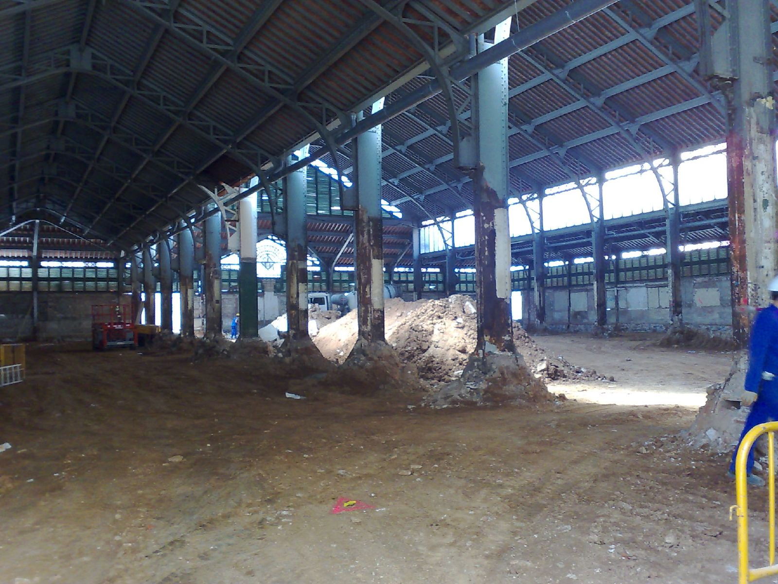 Works at the Mercat de la Llibertat, Barcelona (2007)